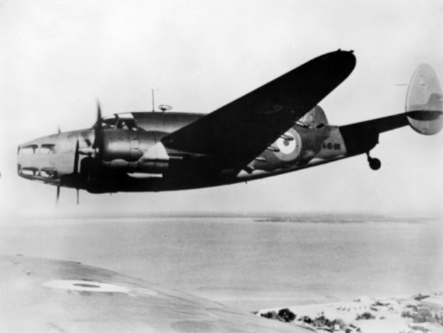 A RAAF Lockheed Hudson Mk.I aircraft (s/n A16-66) in flight with Raymond Garrett as the pilot. Note the absence of a gun turret on this aircraft. On 28 and 29 November 1941, A16-66 had been involved with three other Hudsons from No. 13 Squadron RAAF in the fruitless search for survivors of the sinking of the HMAS Sydney. Each Hudson flew from dawn until dusk in parallel searches operating from Broome, Port Hedland and Carnarvon in Western Australia, but found nothing. 13 Squadron moved from Darwin to Ambon on 7 December 1941 to provide air support to the Dutch forces stationed there. Later, on 26 January 1942, A16-66 and two other Hudsons (A16-125 and -71) were destroyed on the ground when four Japanese A6M2 Zeros from the 3rd Kokatai that strafed Halong naval base on Ambon Island.